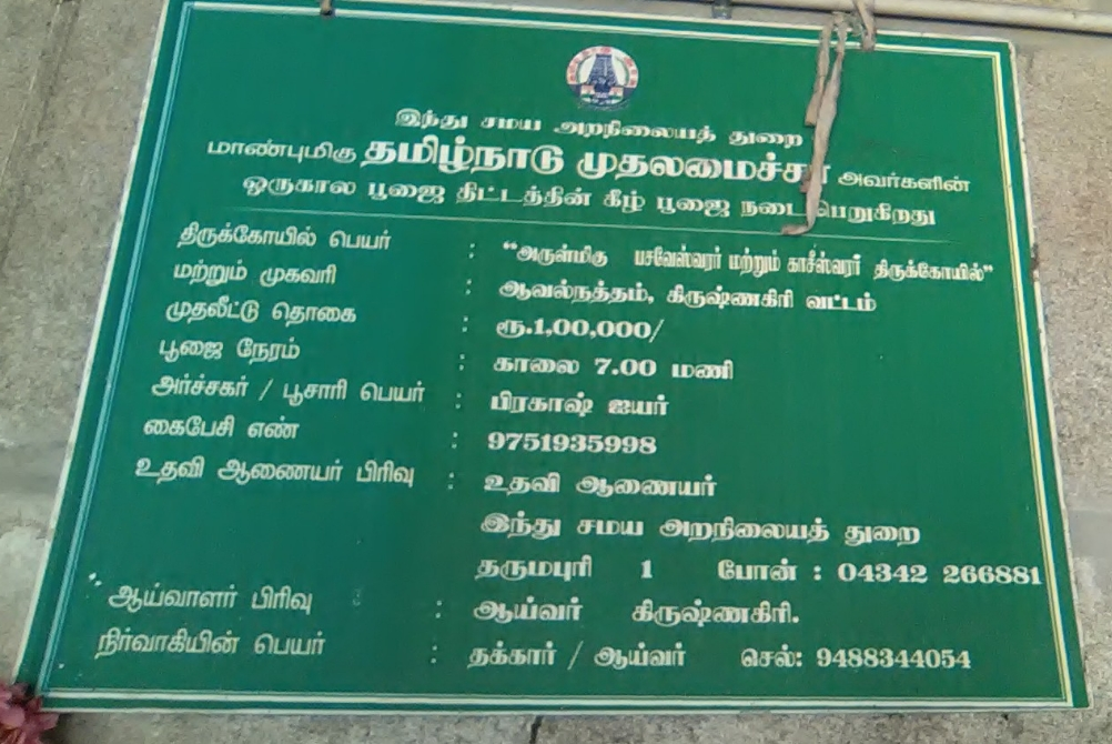 தமிழ்நாட்டில் கிருஷ்ணகிரி மாவட்டம், ஆவல்நத்தம் காசீஸ்வரர் மற்றும் பசுவேஸ்வரர் கோயில் பெயர் பலகை